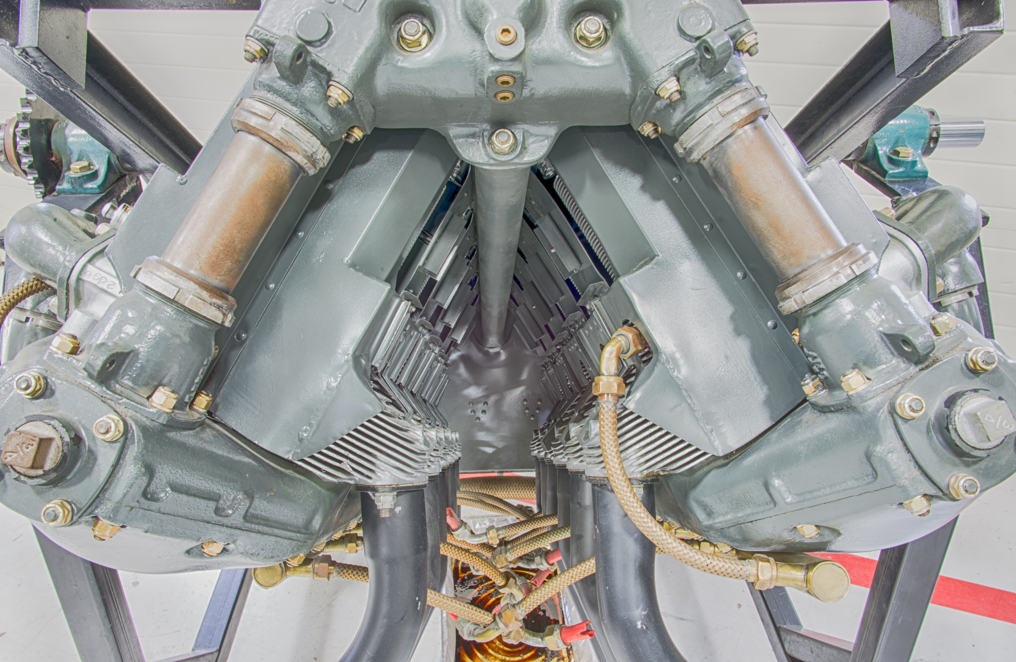 The engine has 12 cylinders in an inverted, inline configuration, which permitted excellent pilot visibility.The engine is air-cooled. The V-770 engine saw very limited use. This engine is at the Yankee Air Museum in Belleville, Michigan.